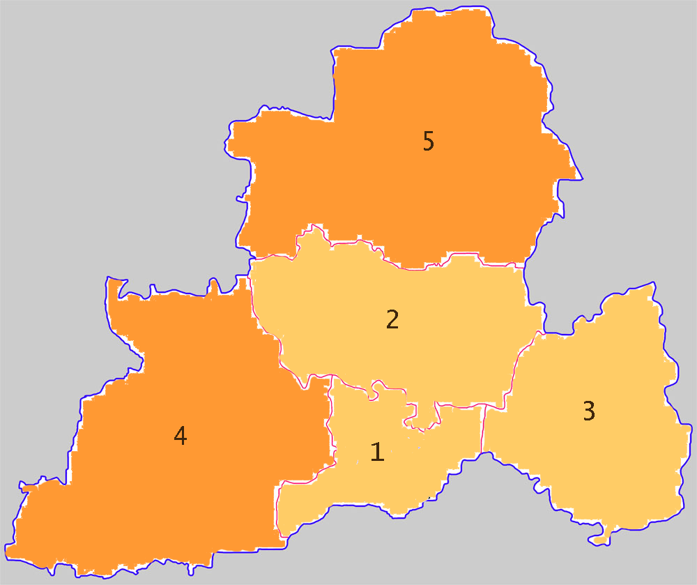 Municipalities of Luohe city, China